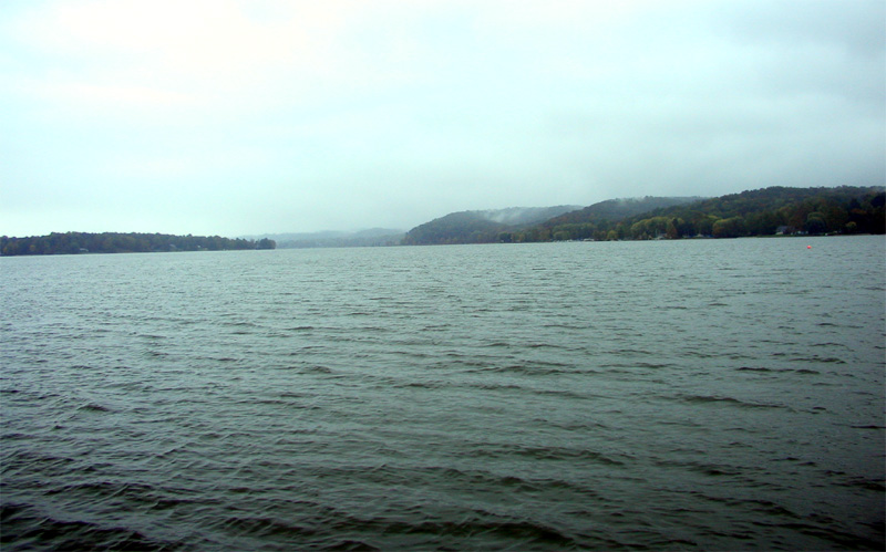 Image of Lake Lemon, Indiana looking from west end of the main bay towards the east. Photograph taken in 2002.